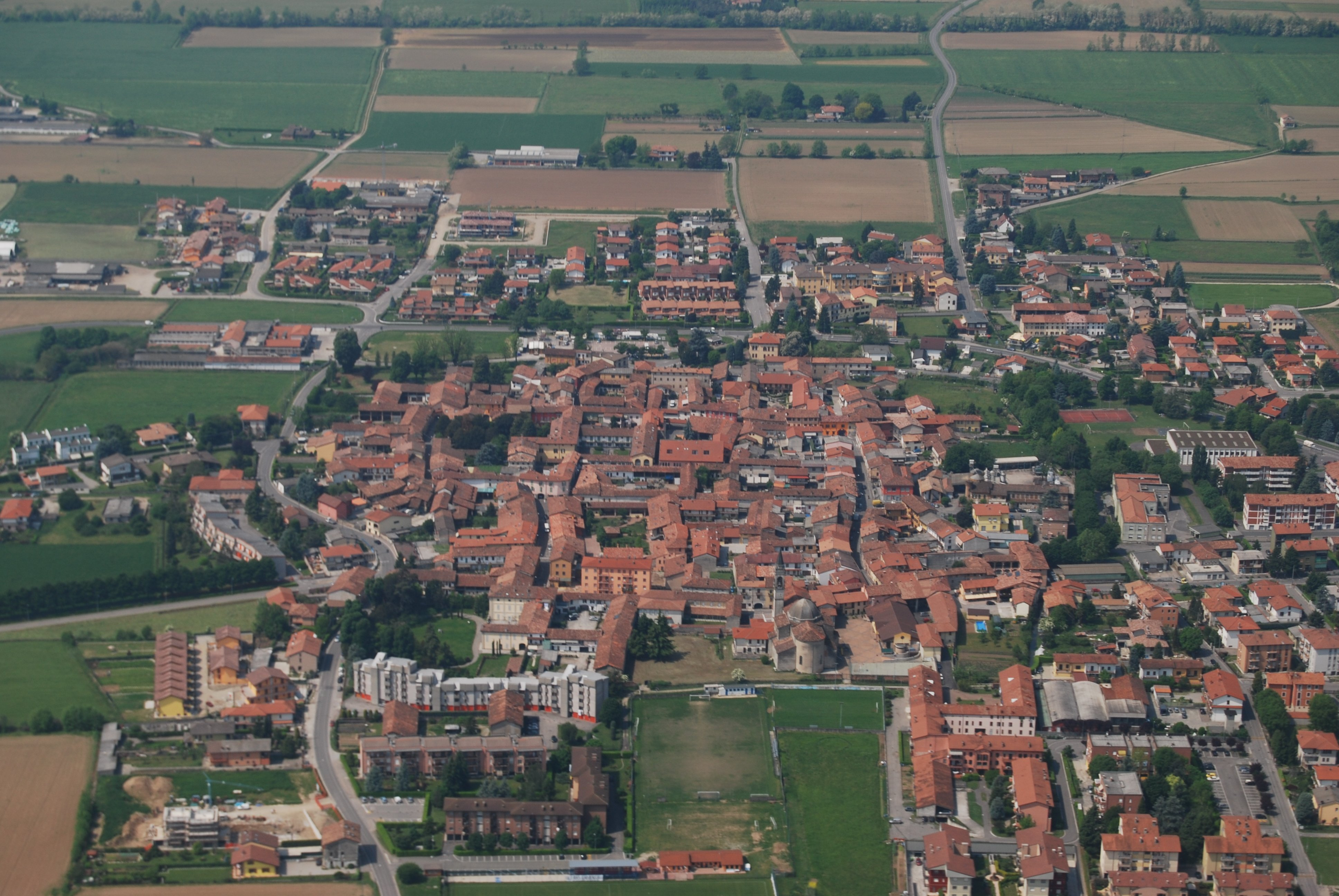 Air view of Calvenzano